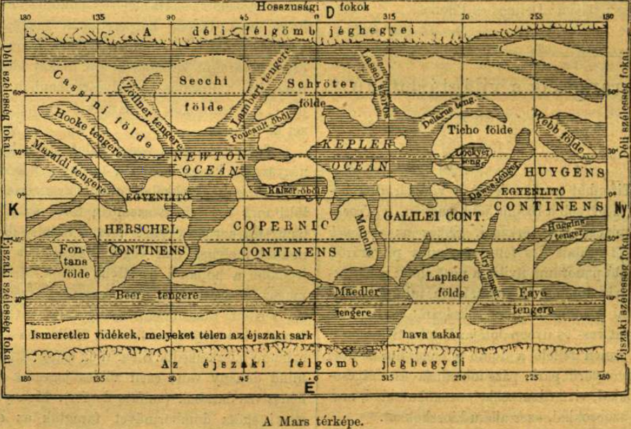 Map of the Mars